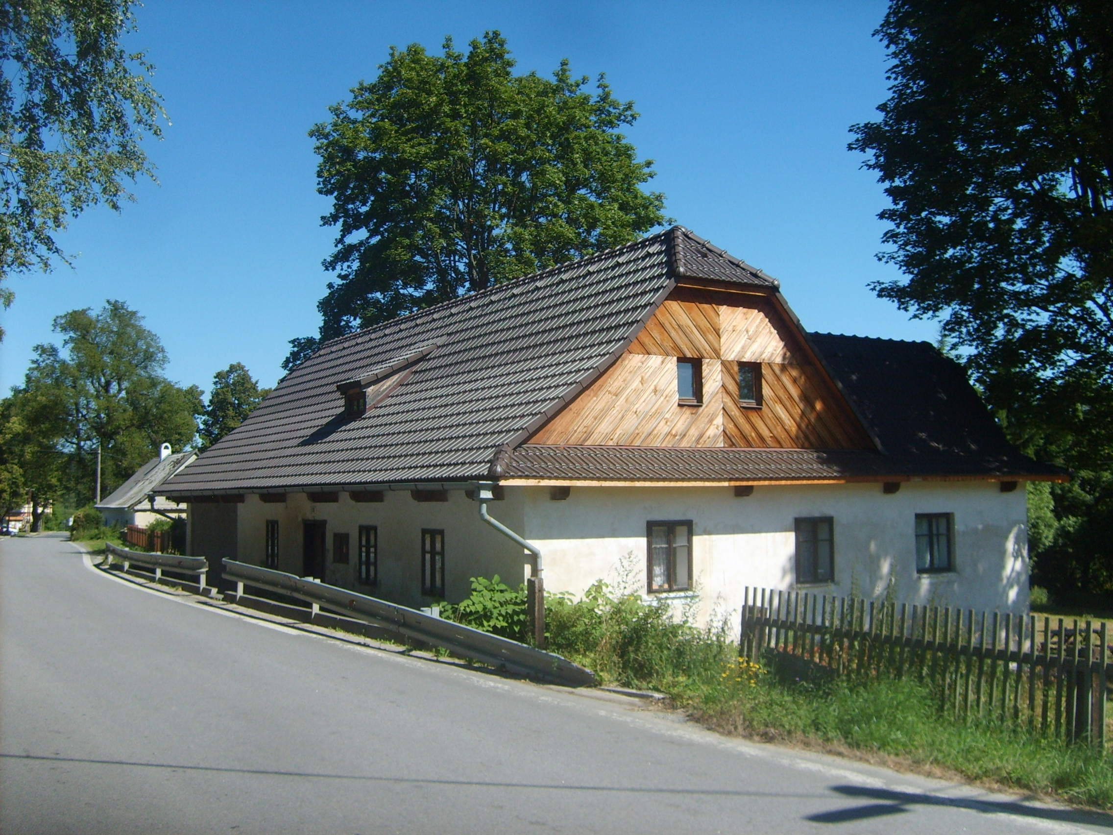 Rural architecture in Křižánky, Žďár nad Sázavou District, CZ